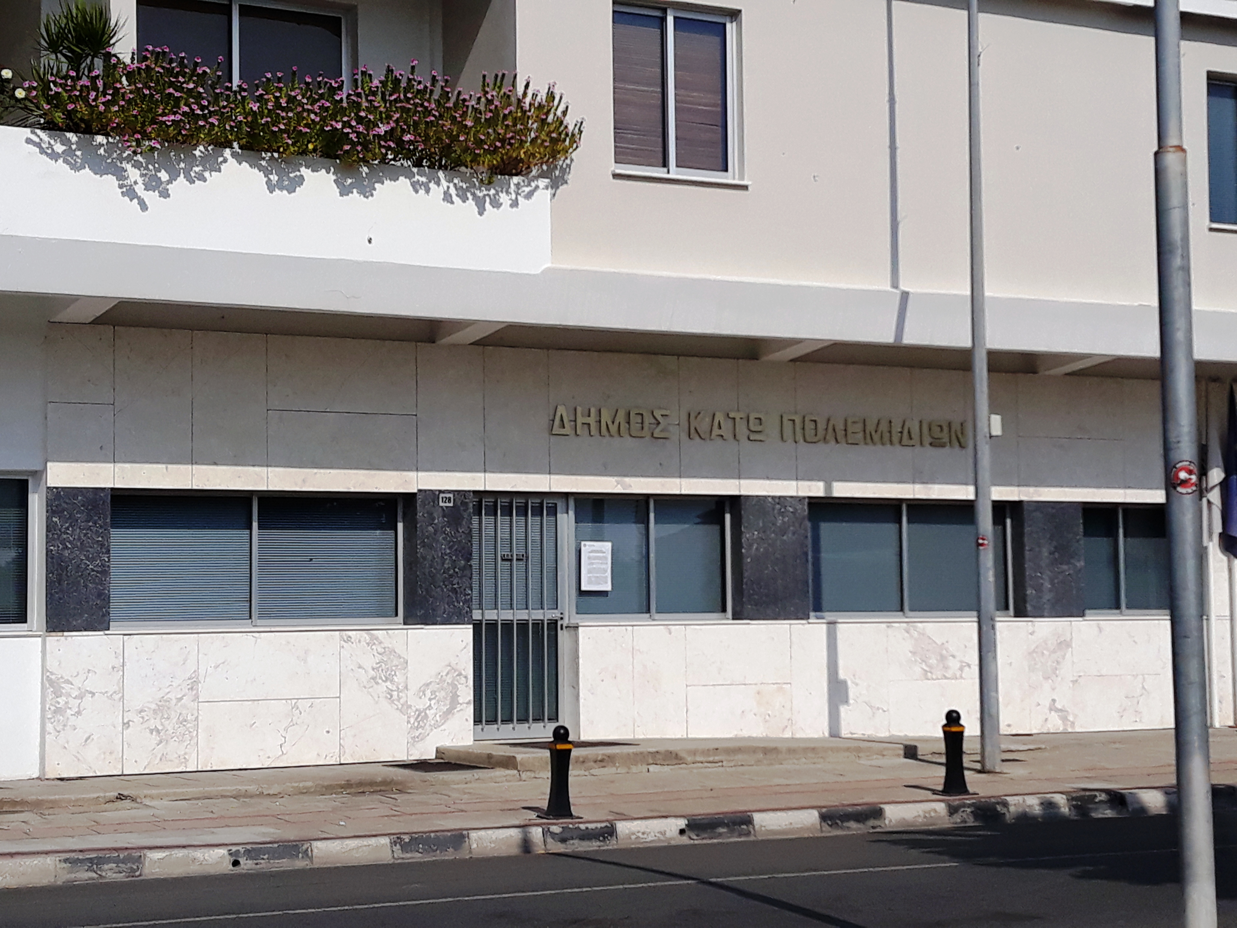 Kato Polemidhia Town Hall